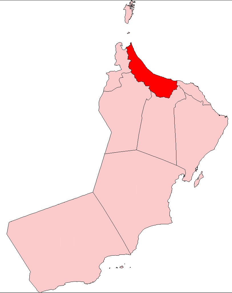 Map of al-Batina region, Oman